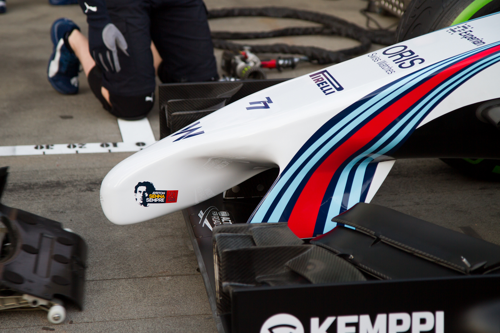 2014 Australian F1 Grand Prix